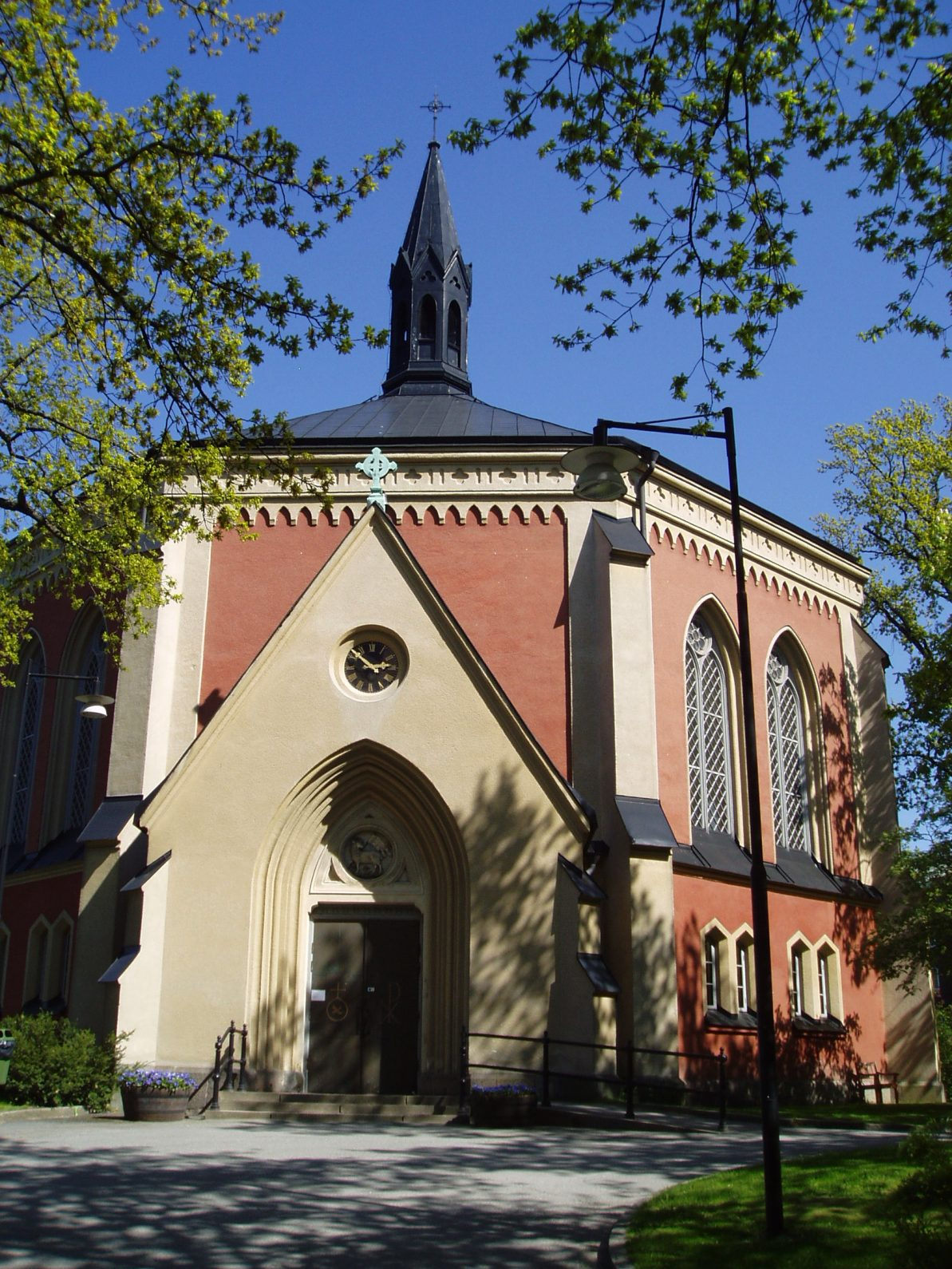 church, Södermalm, Stockholm, Sweden